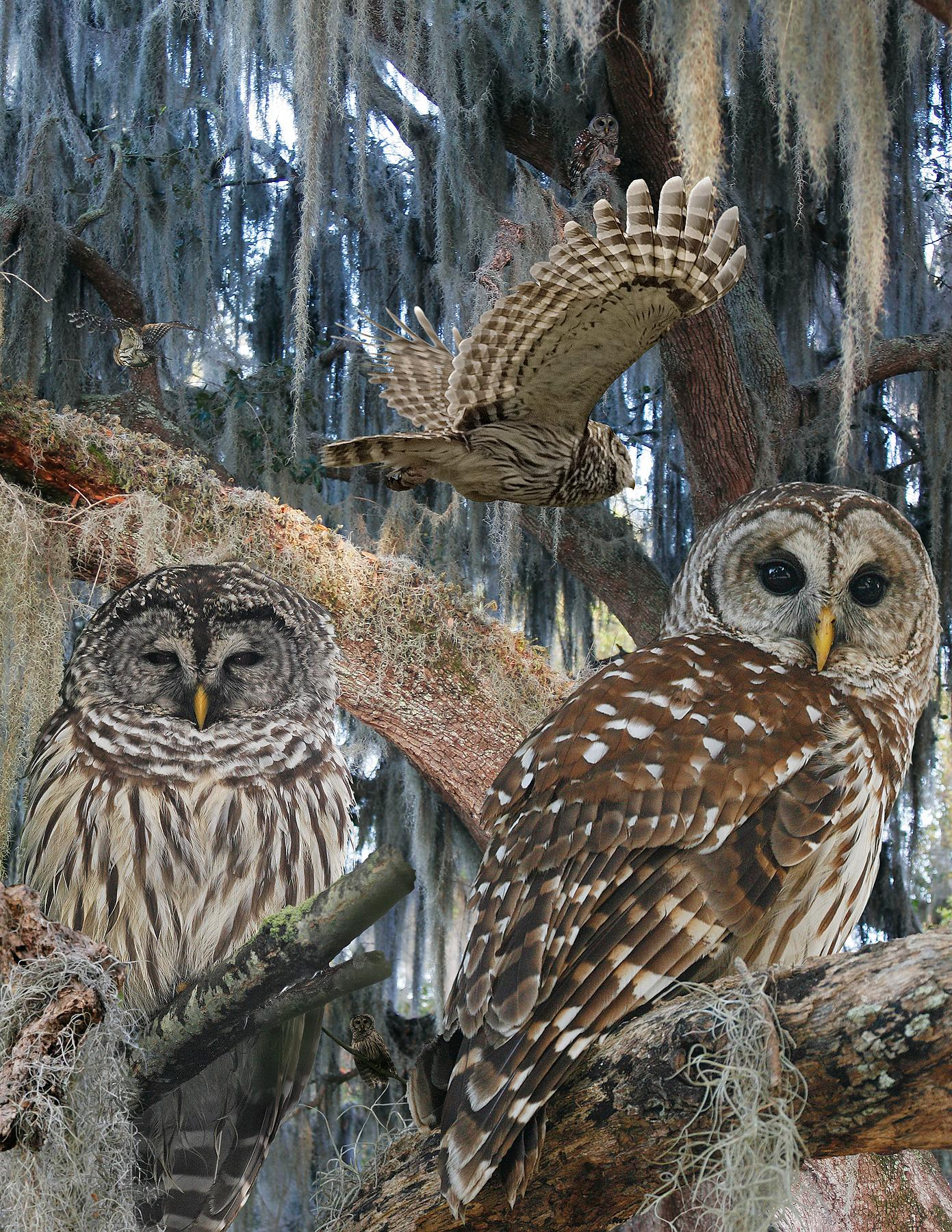 Barred owl From The Crossley ID Guide Eastern Birds